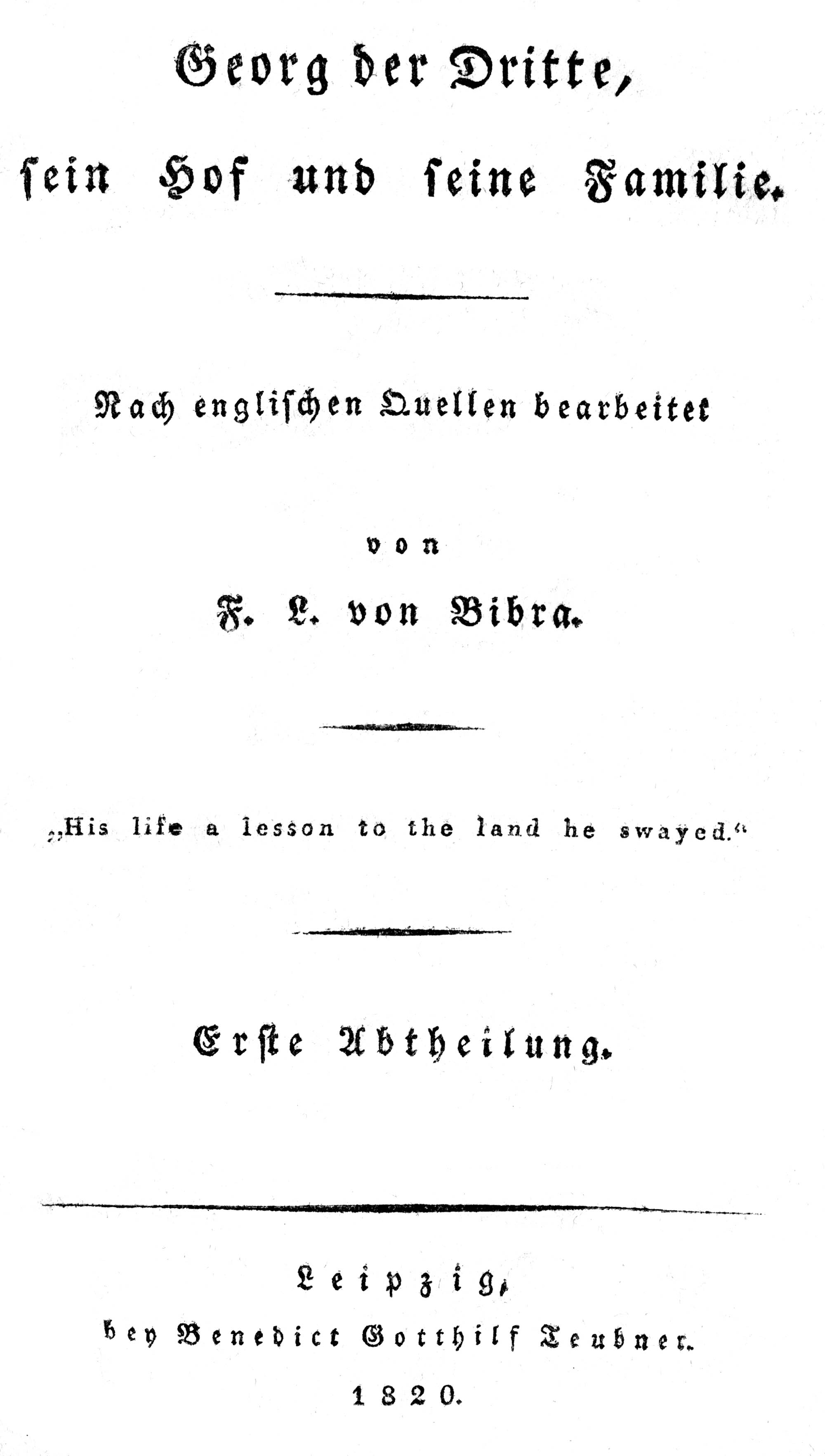 cover page of Georg der Dritte, sein hof und seine Families. Nach englischen Quellen bearbeitet von F.L. von Bibra, Leipzig 1820 Three Volumes 507 pages